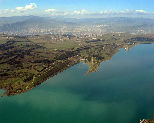 Tbilisi Reservoir ("Tbilisi Sea") in Georgia, From the helicopter